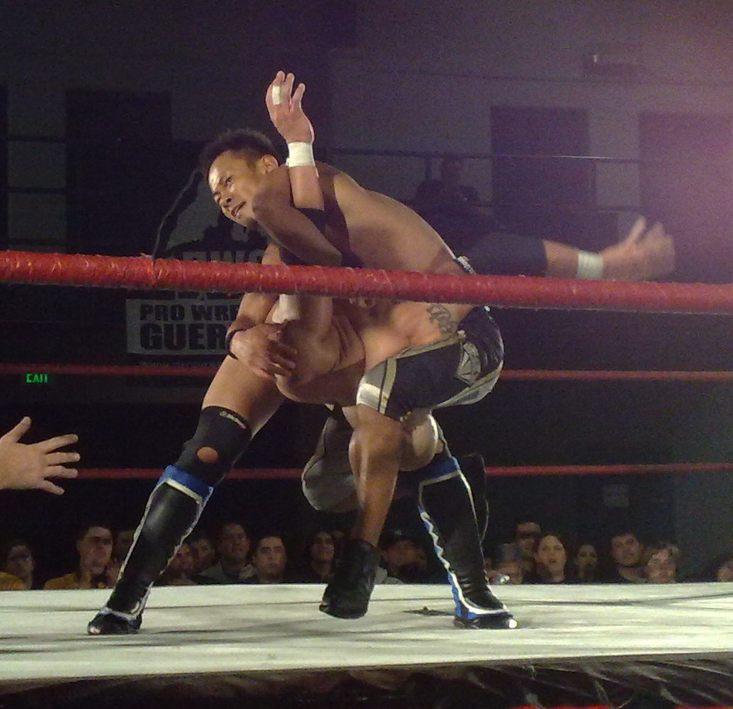 Masato Yoshino applies the From Jungle octopus hold on Low-Ki at Pro Wrestling Guerrilla's Battle of Los Angeles 2008 Night 2 show on November 2, 2008.